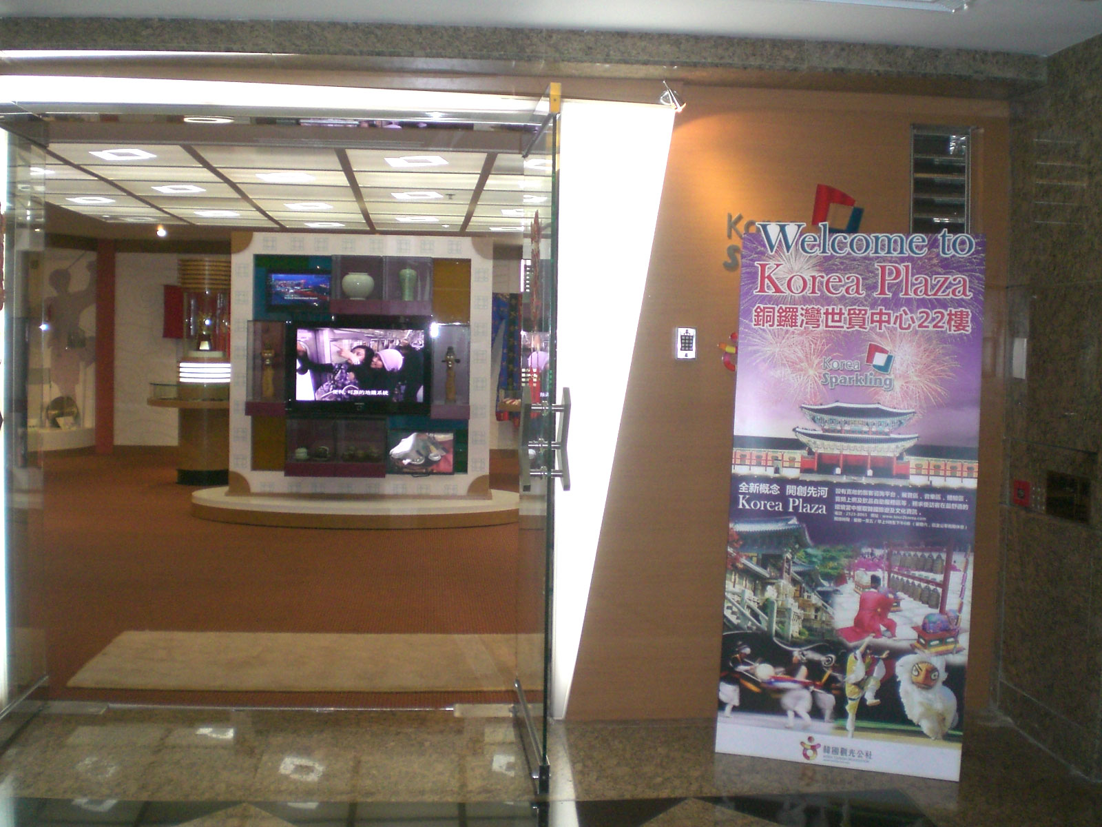 韓國觀光公社，Korea Tourism Organization